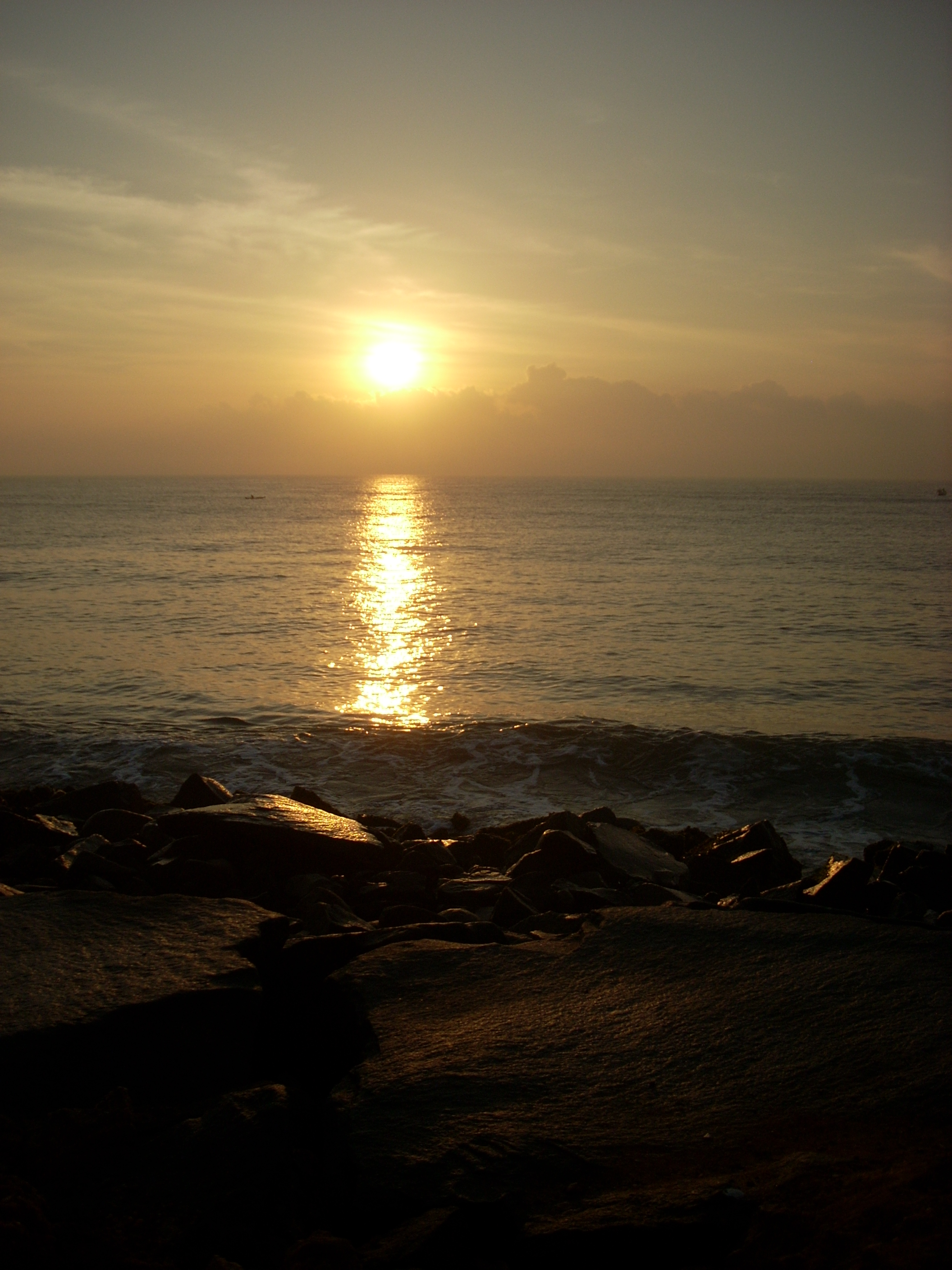 This is clicked at sunrise in pondicherry